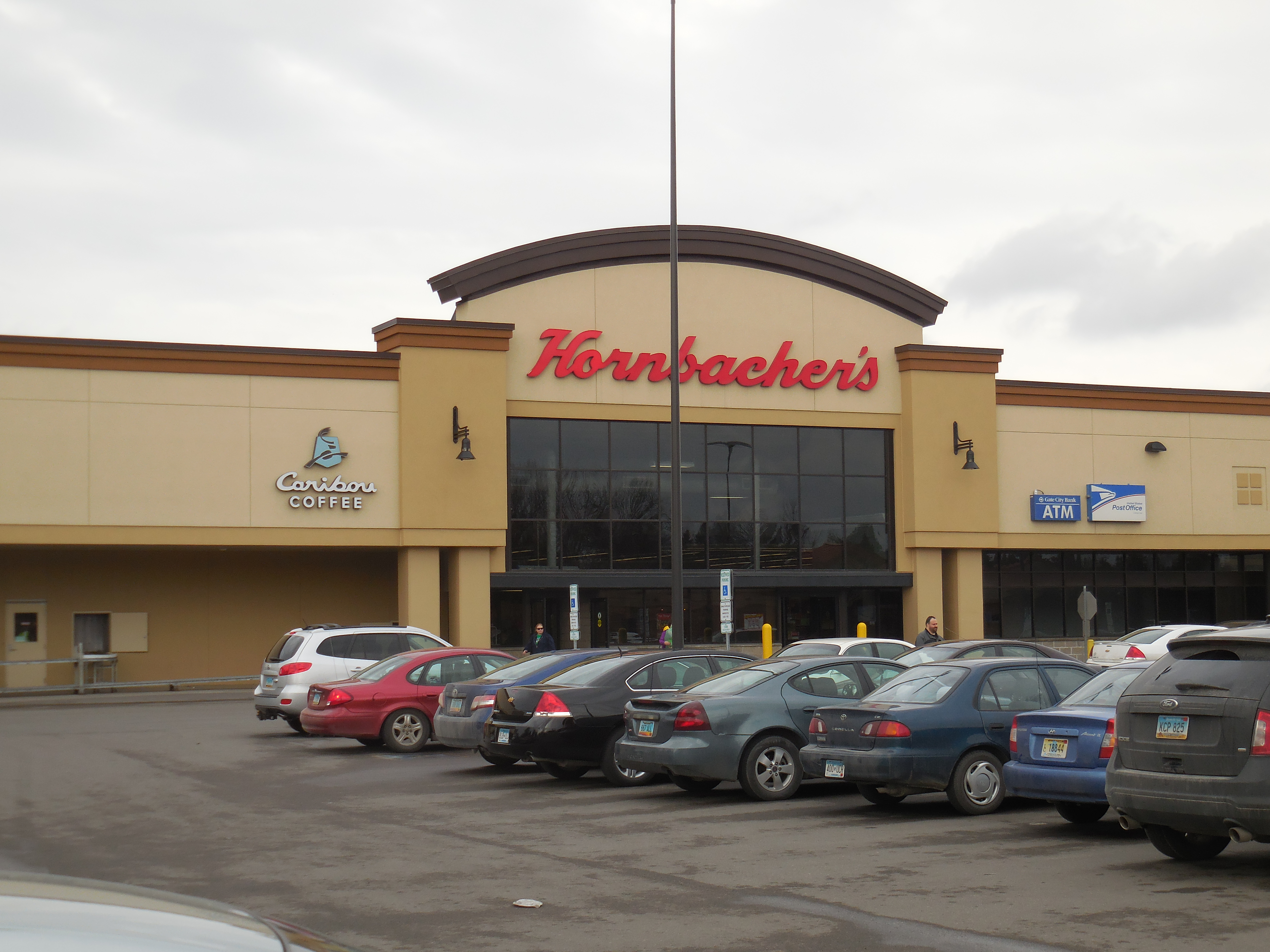 Hornbachers, North Fargo Location, 2016